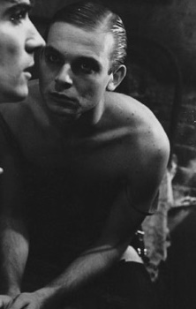 Nicolás Frei- actor